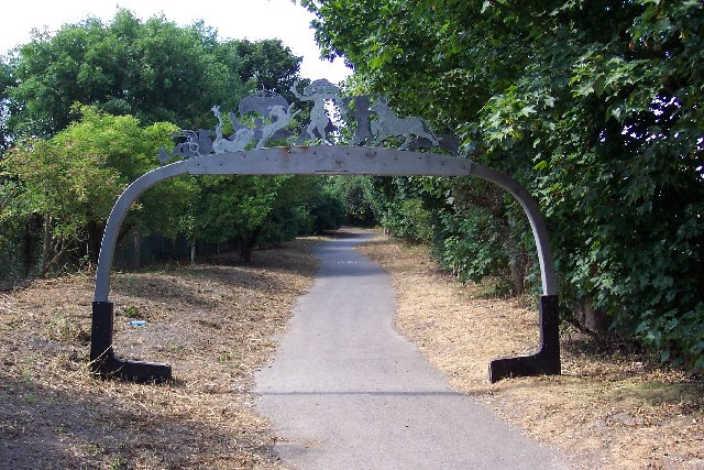 Cycle path sculpture at Fishbourne. Immediately at the start of the Centurion Way cycle path at Fishbourne is a sculpture called the "Roman Archway". Made by Richard Farrington with the help of pupils from the Bishop Luffa School, the arch is a section taken from the hull of a wooden mine sweeper and is surmounted by designs taken from Romano-British mosaics. It reflects the Roman influence on the area, not least in the nearby Fishbourne Roman palace.